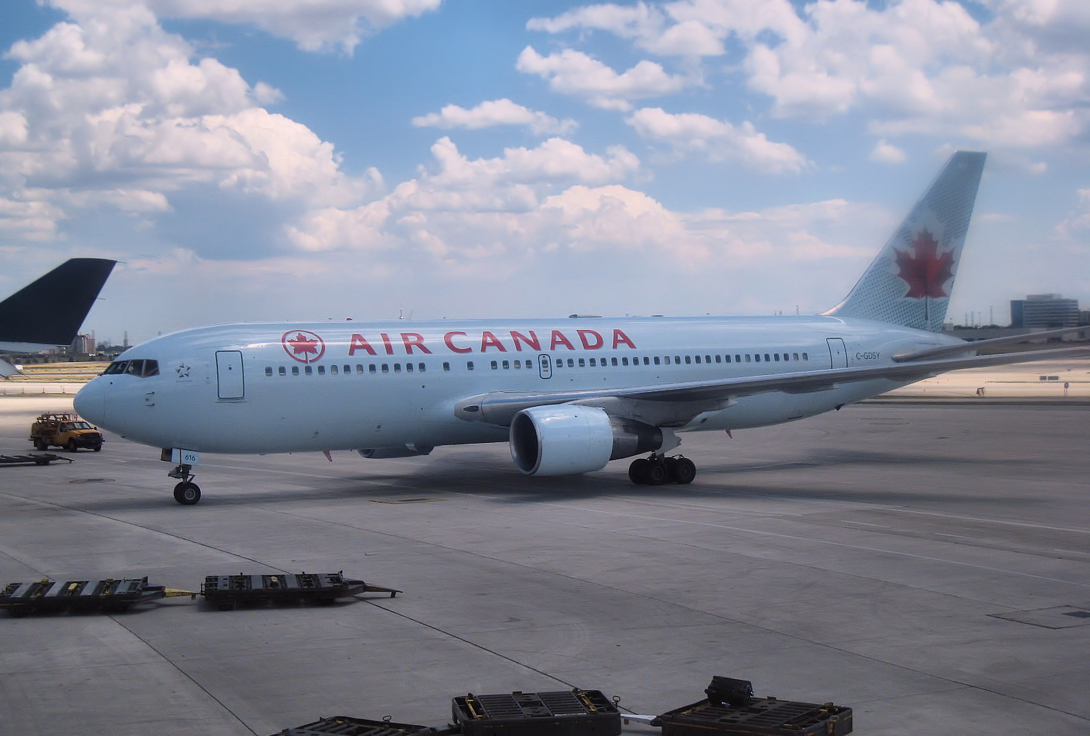 Air Canada #616 Boeing 767-200ER at Toronto Pearson International Airport. [July 2007]